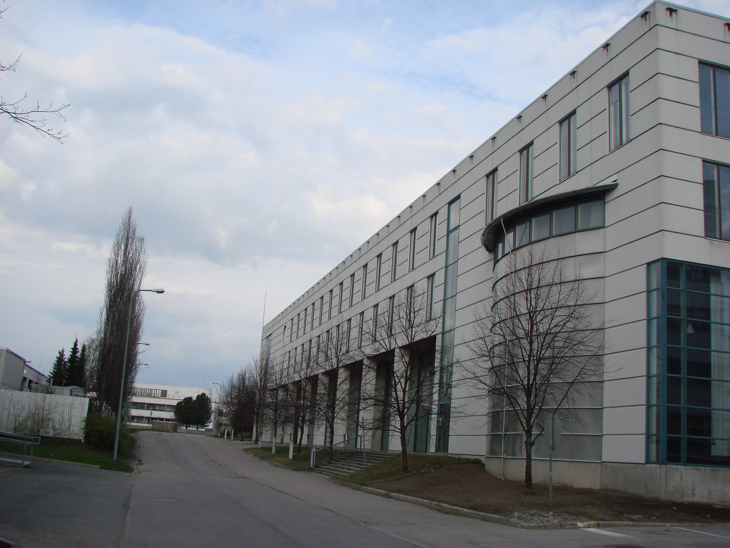 Laurea University of Applied Sciences, Otaniemi campus.